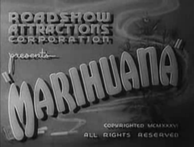 "Marijuana: The Devil's Weed" opening title